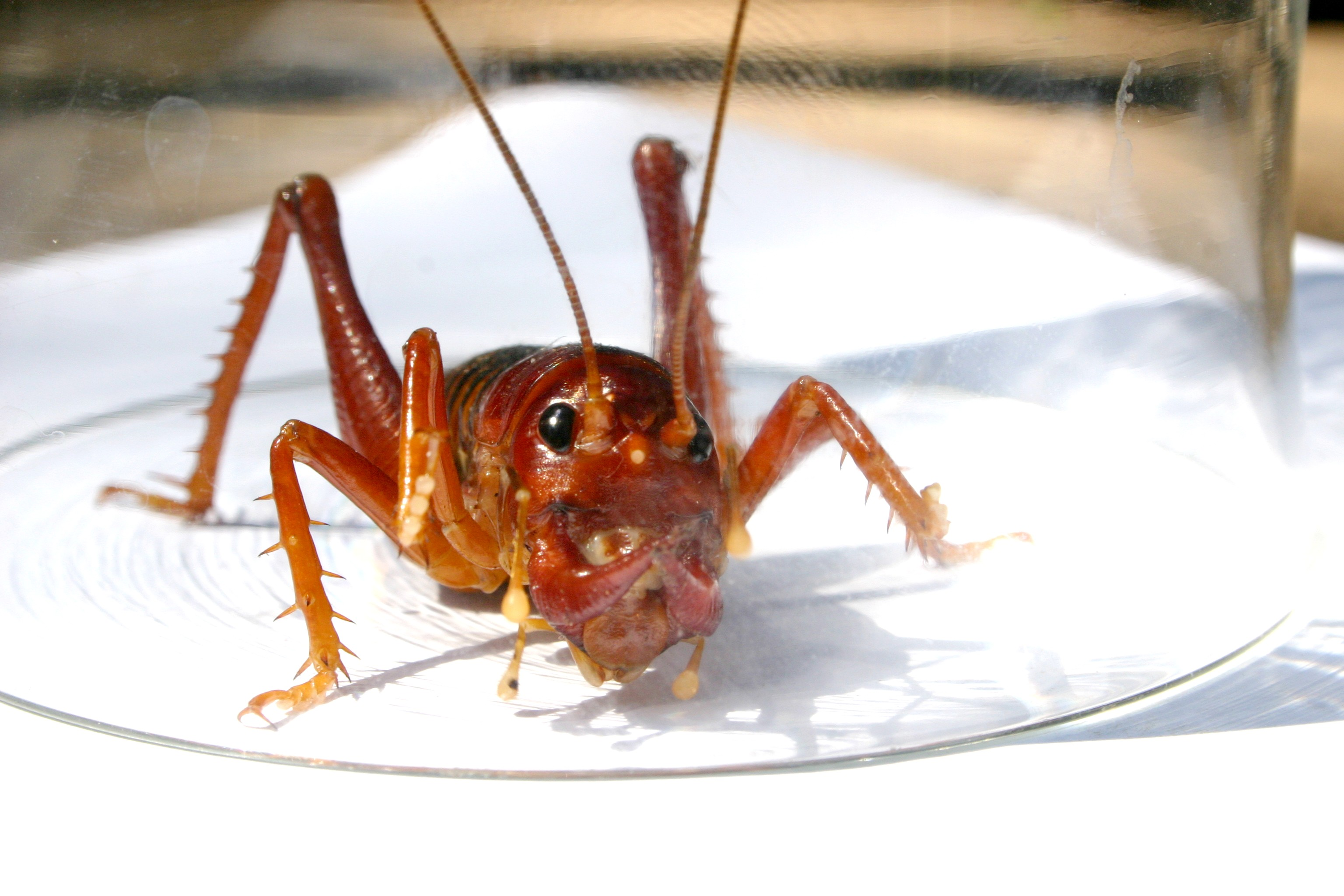 Libanasidus vittatus aka Parktown Prawn - Gauteng, South Africa - nocturnal in habit - photographed under tumbler